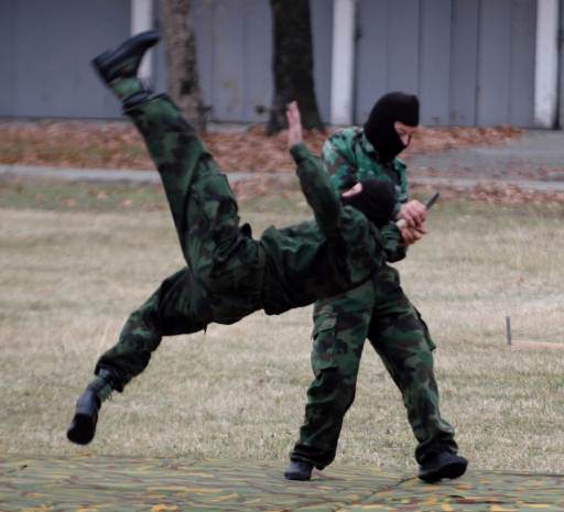 Members of the Montenegrin Special Forces perform combative techniques during a tactical capabilities demonstration at the Danilovgrad Training Center in Montenegro Dec. 7, 2006, for National Guard Bureau and Maine National Guard leaders. The Maine National Guard and Montenegro announced their pairing in the National Guard’s State Partnership Program. (U.S. Army photo by Sgt. Jim Greenhill) (Released).